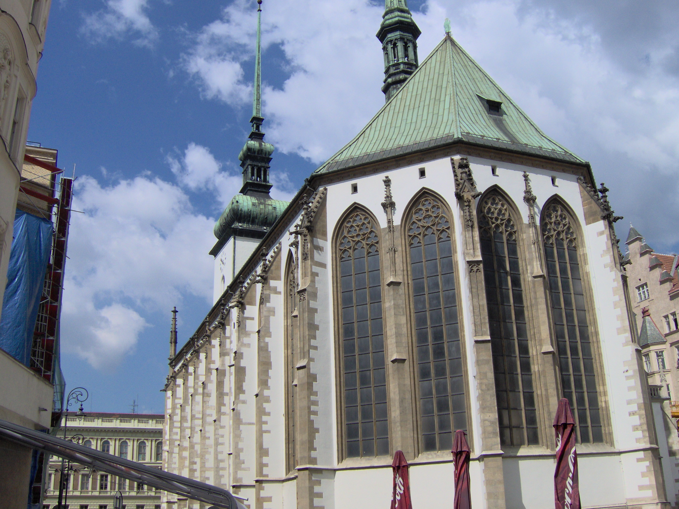 Church of St. Jacob